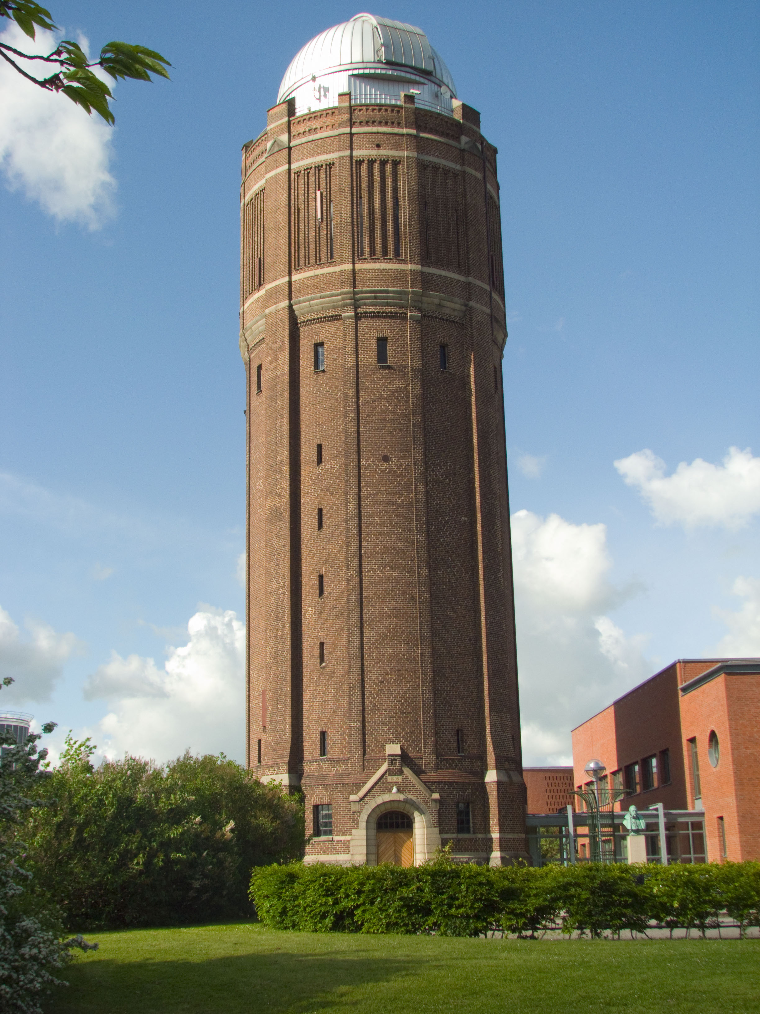 It was originally a water tower, long ago.